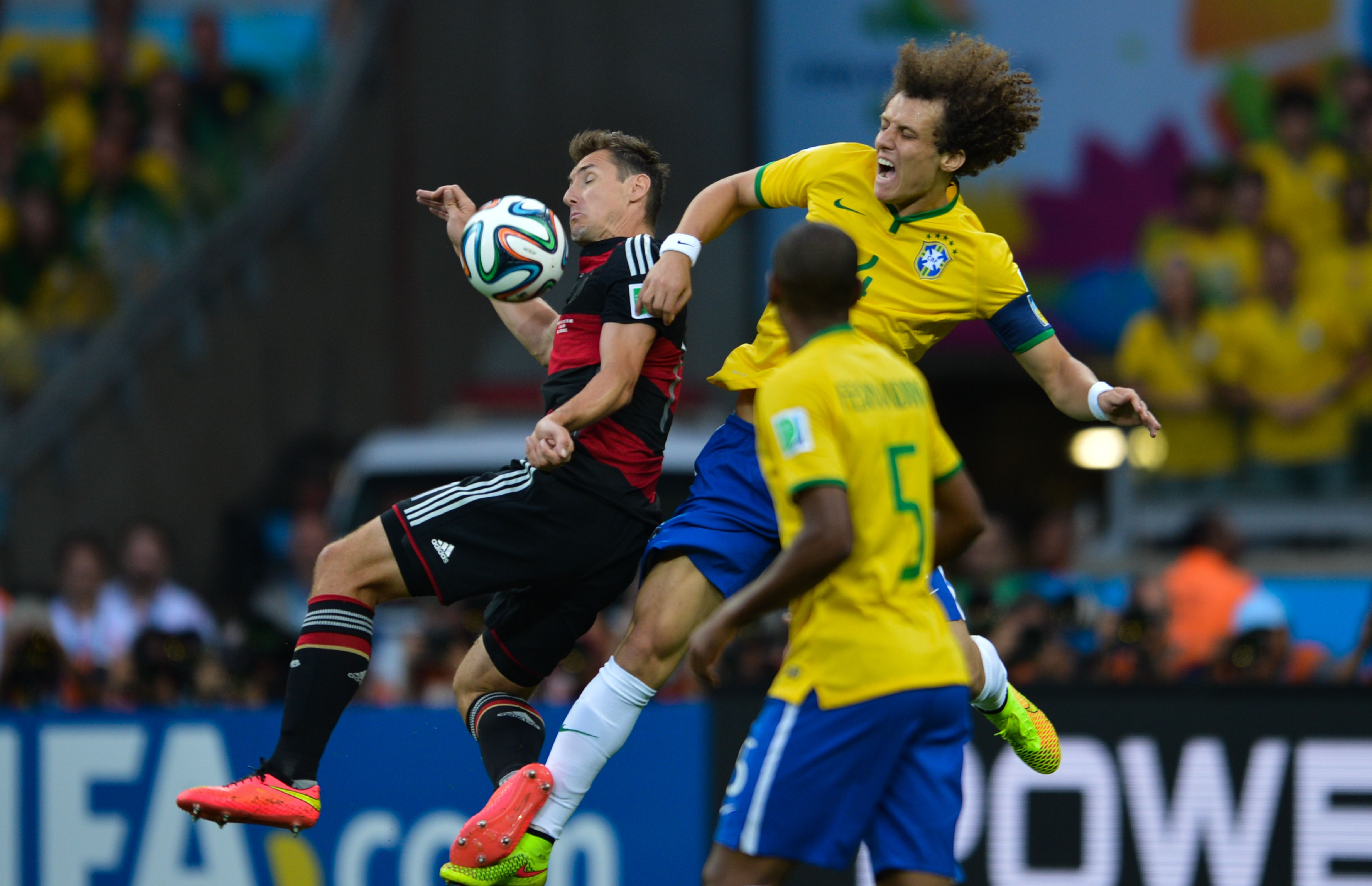 Brazil vs Germany, in Belo Horizonte